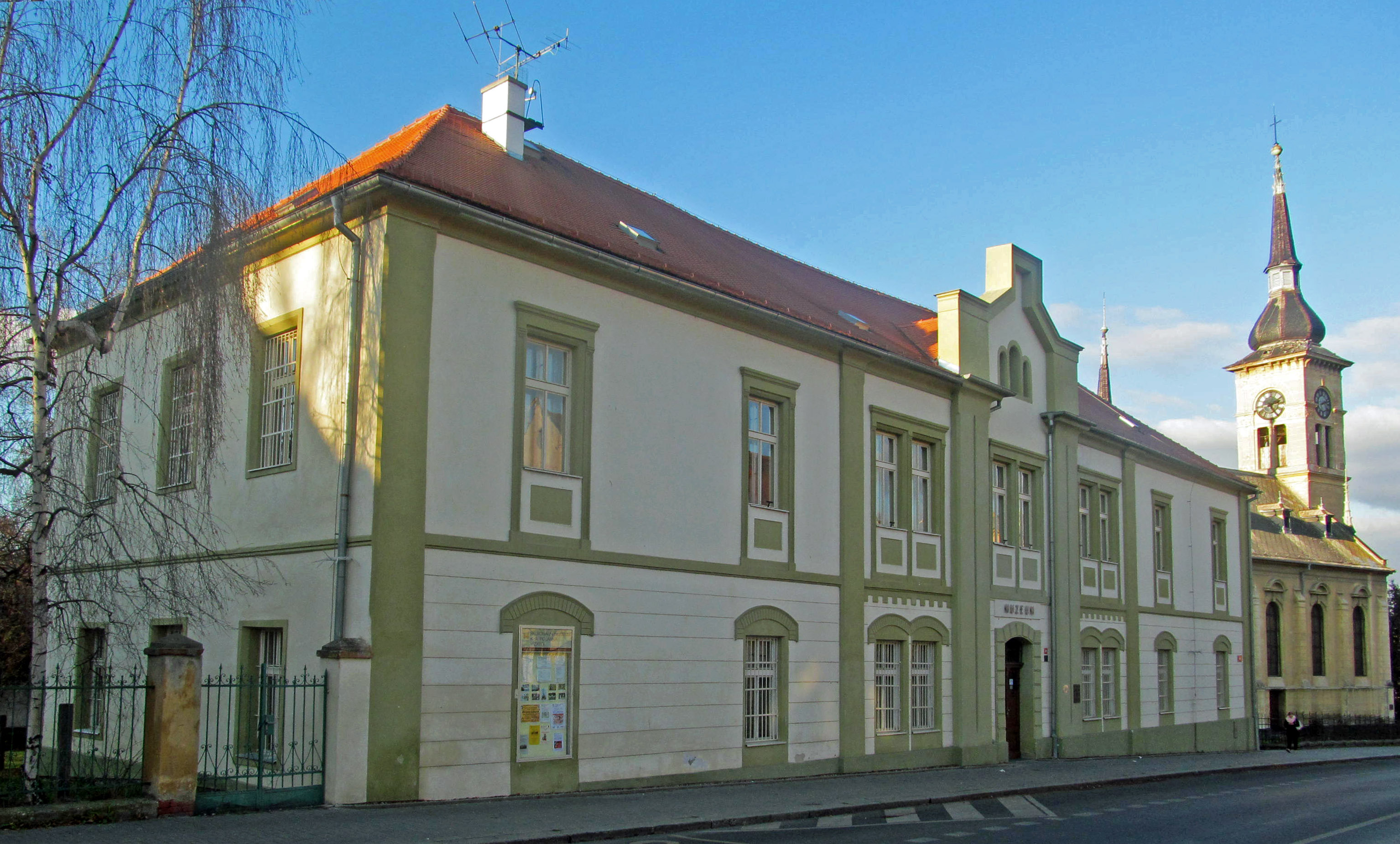 Administrative building of the Municipal museum in Žatec